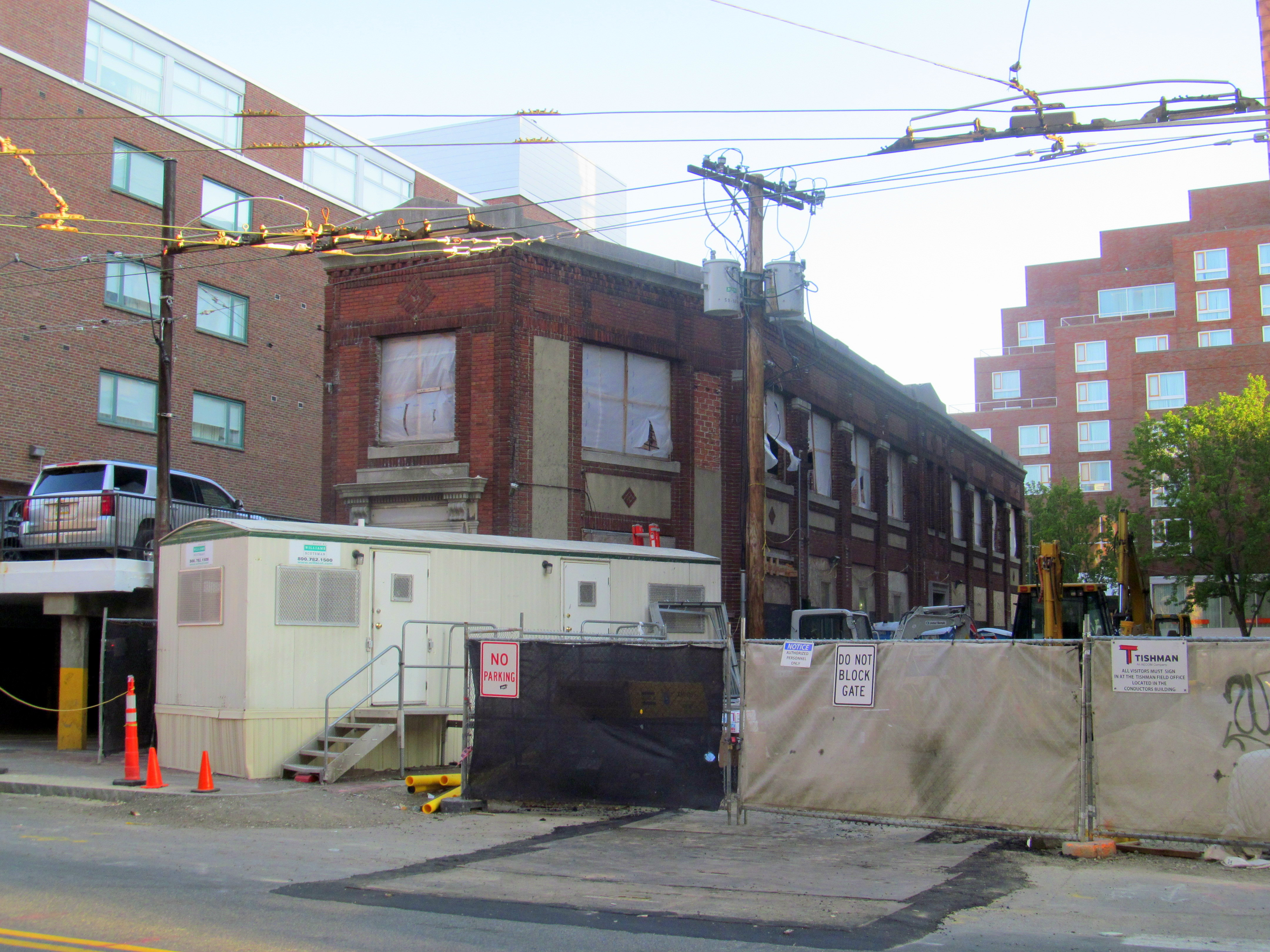 Conductor's Building during renovations in July 2015